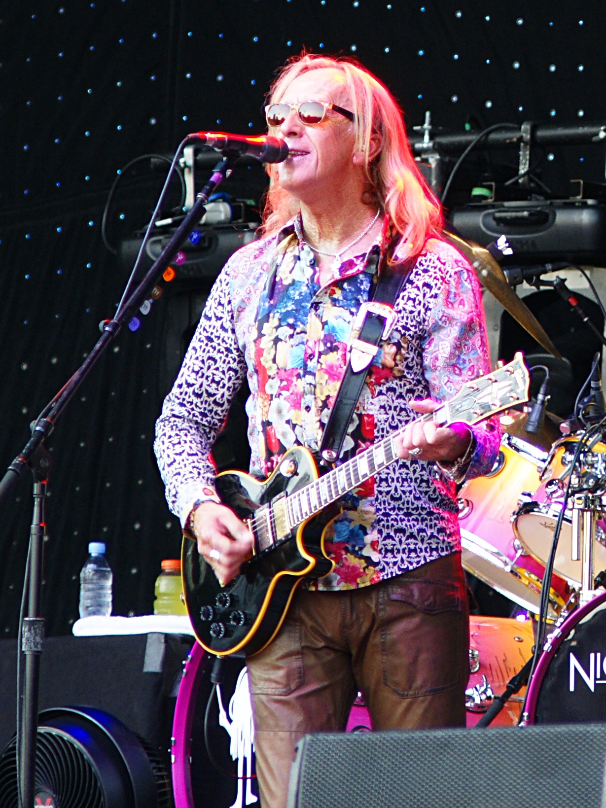 Davey Johnstone at an Elton John & Band concert in Wiesbaden, Germany